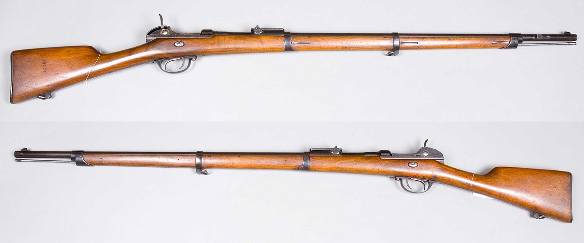 Bavarian Army M/1869 Werder rifle - from the collections of the Swedish Army Museum.